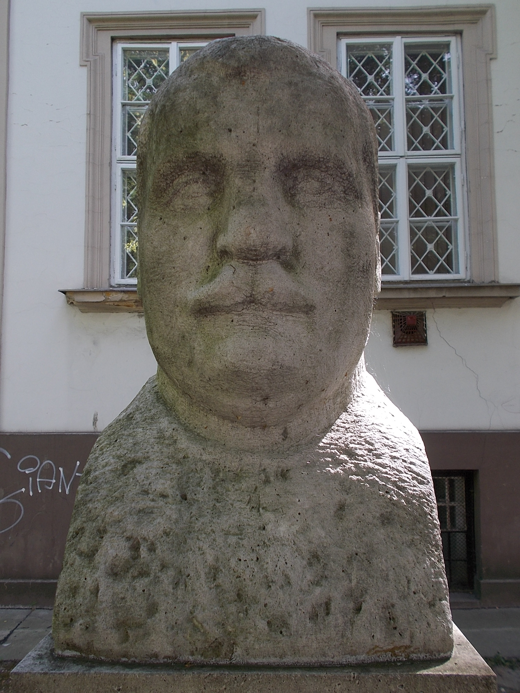 Bust of Károly Szilády by Sándor Nagy. - Katona József Park, Kecskemét, Bács-Kiskun County, Hungary.